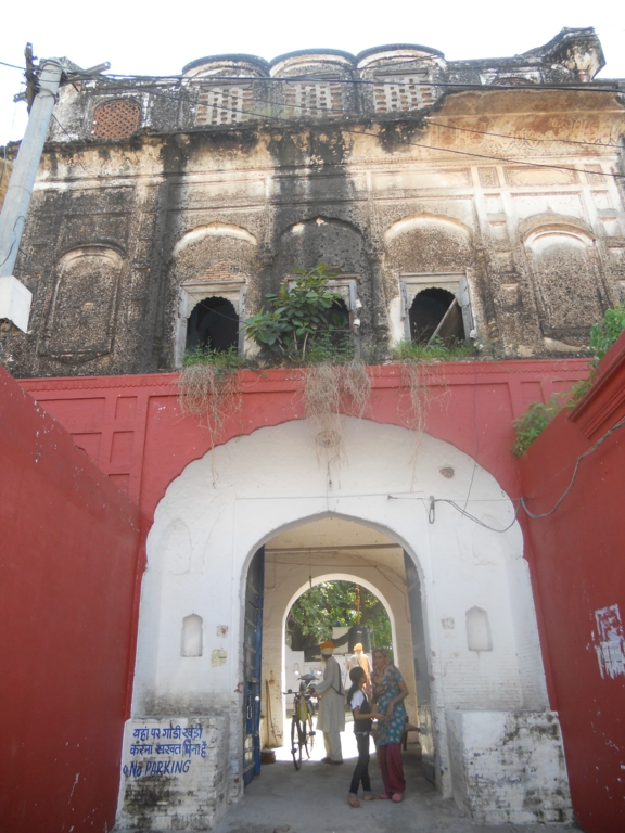 This is picture of Raipur Rani Fort situated in Haryana. There is a historical Sikh Shrine present inside related to Guru Gobind Singh. The fort is like a junk, no care by owners. Gurdwara is under control of local people